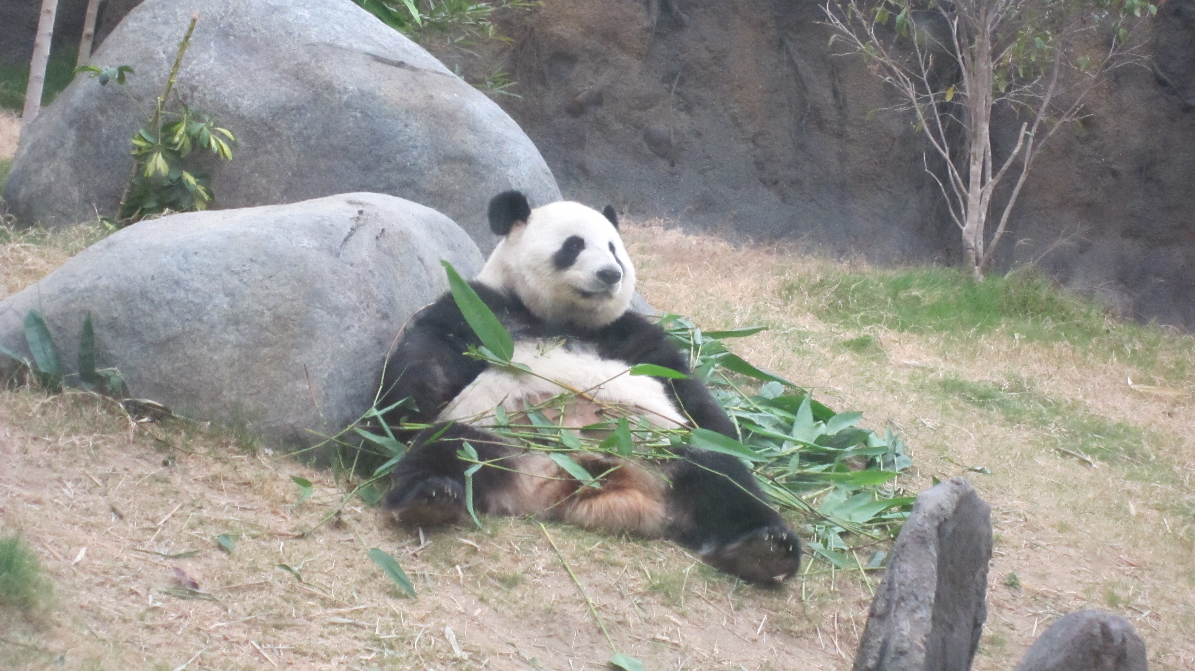 Panda Le Le